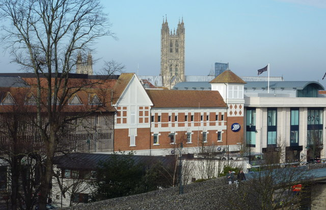 View of the city from Augustine House In the foreground is part of the city walls, behind that is the new Whitefriars shopping precinct and, in the distance, Canterbury Cathedral. Augustine House is the newest addition to Christchurch Canterbury University.